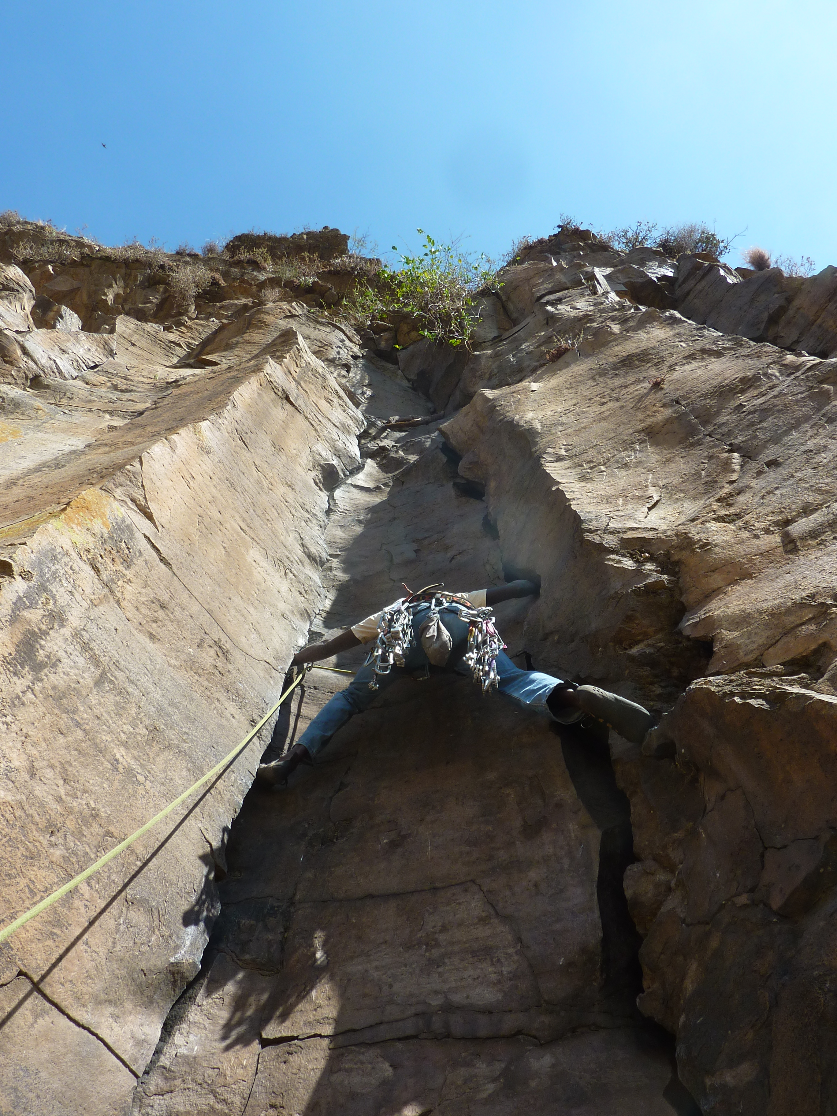 This is an image with the theme "Africa on the Move or Transport" from: Kenya